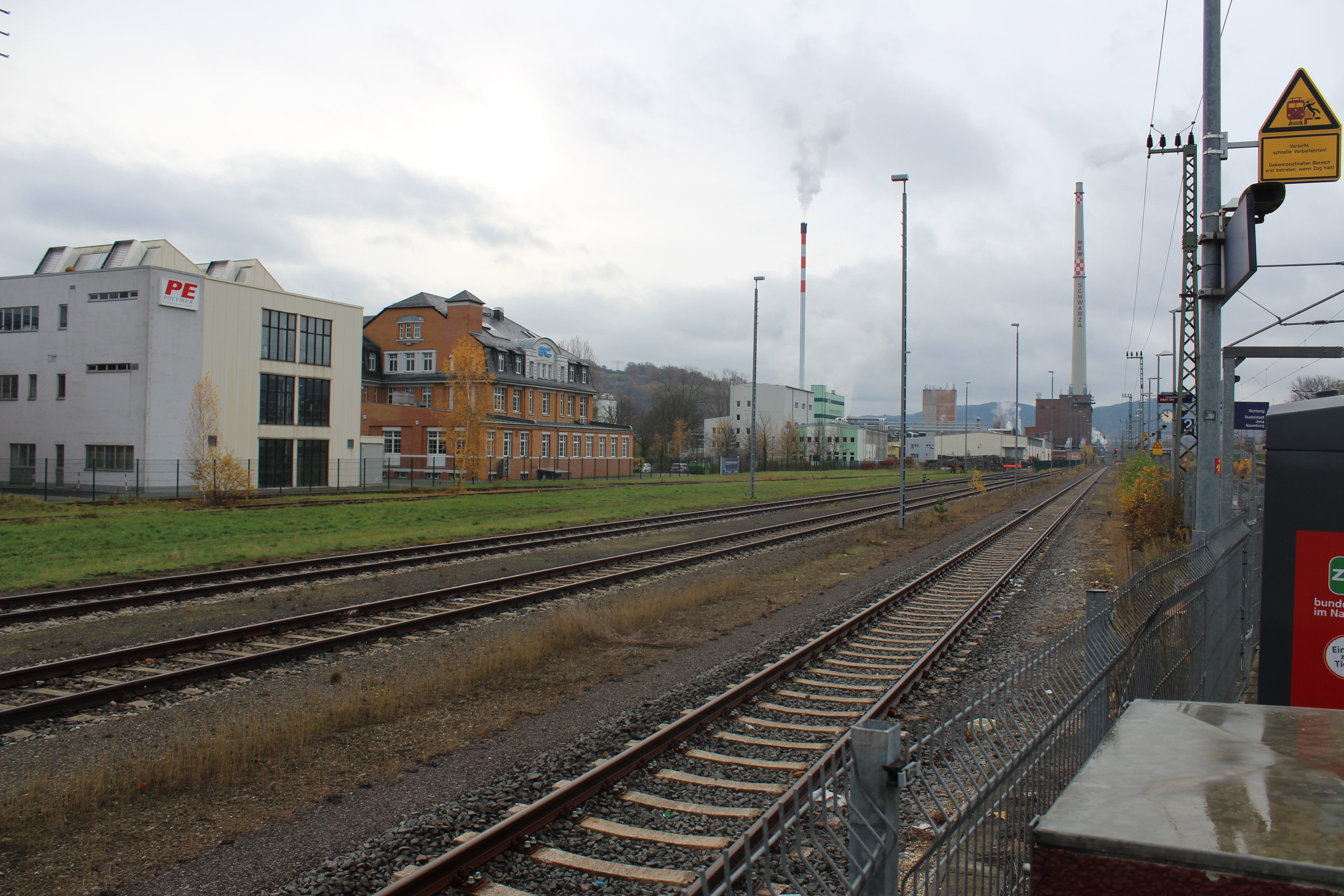 train station Rudolstadt-Schwarza, rails